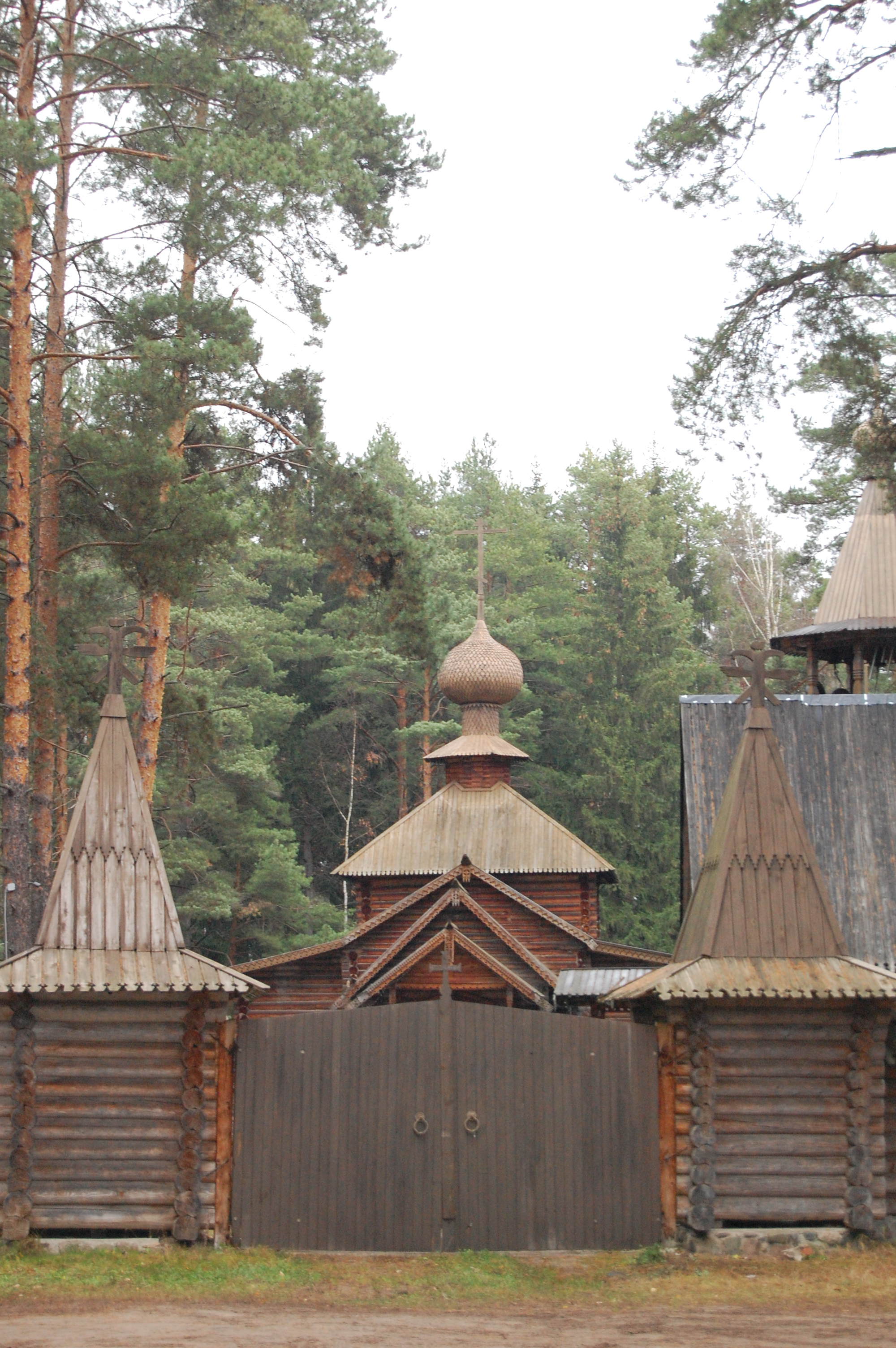 Our Lady of Smolensk wooden temple complex in Dubna, Moscow oblast